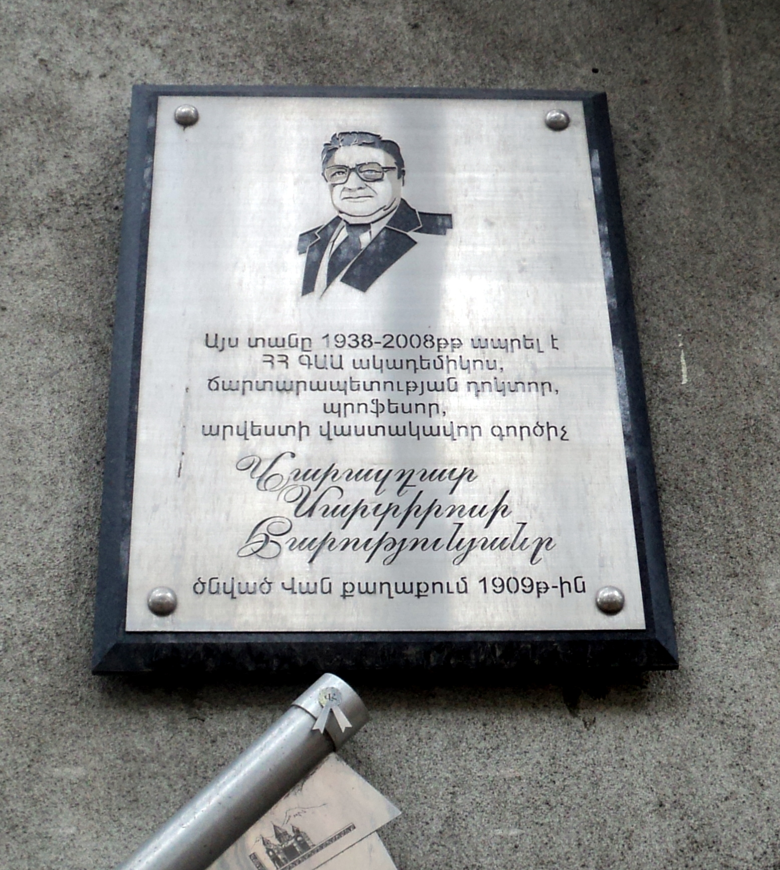 Varazdat Harutyunyan's plaque on Saryan street 13, Yerevan